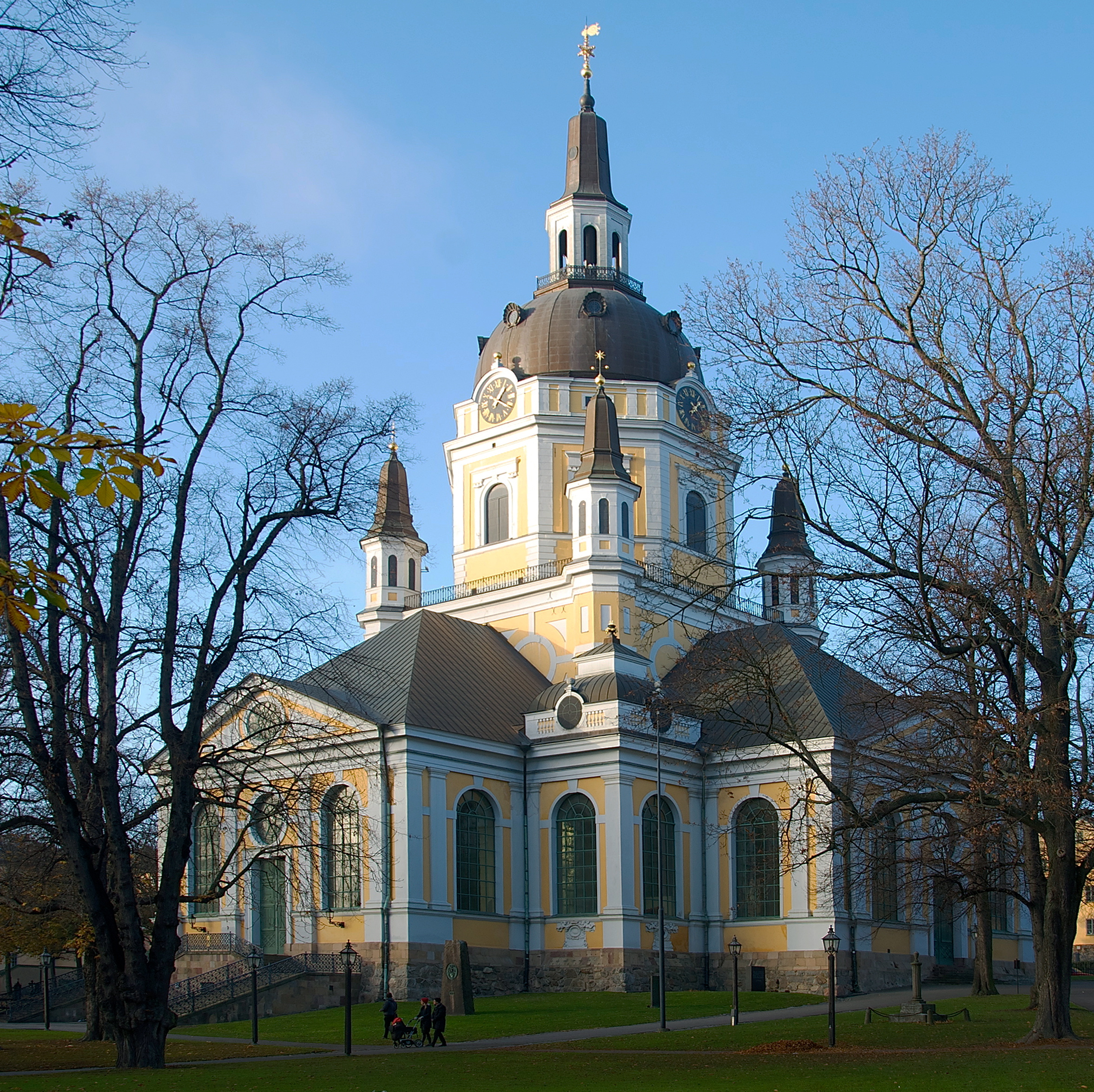 Katarina kyrka.